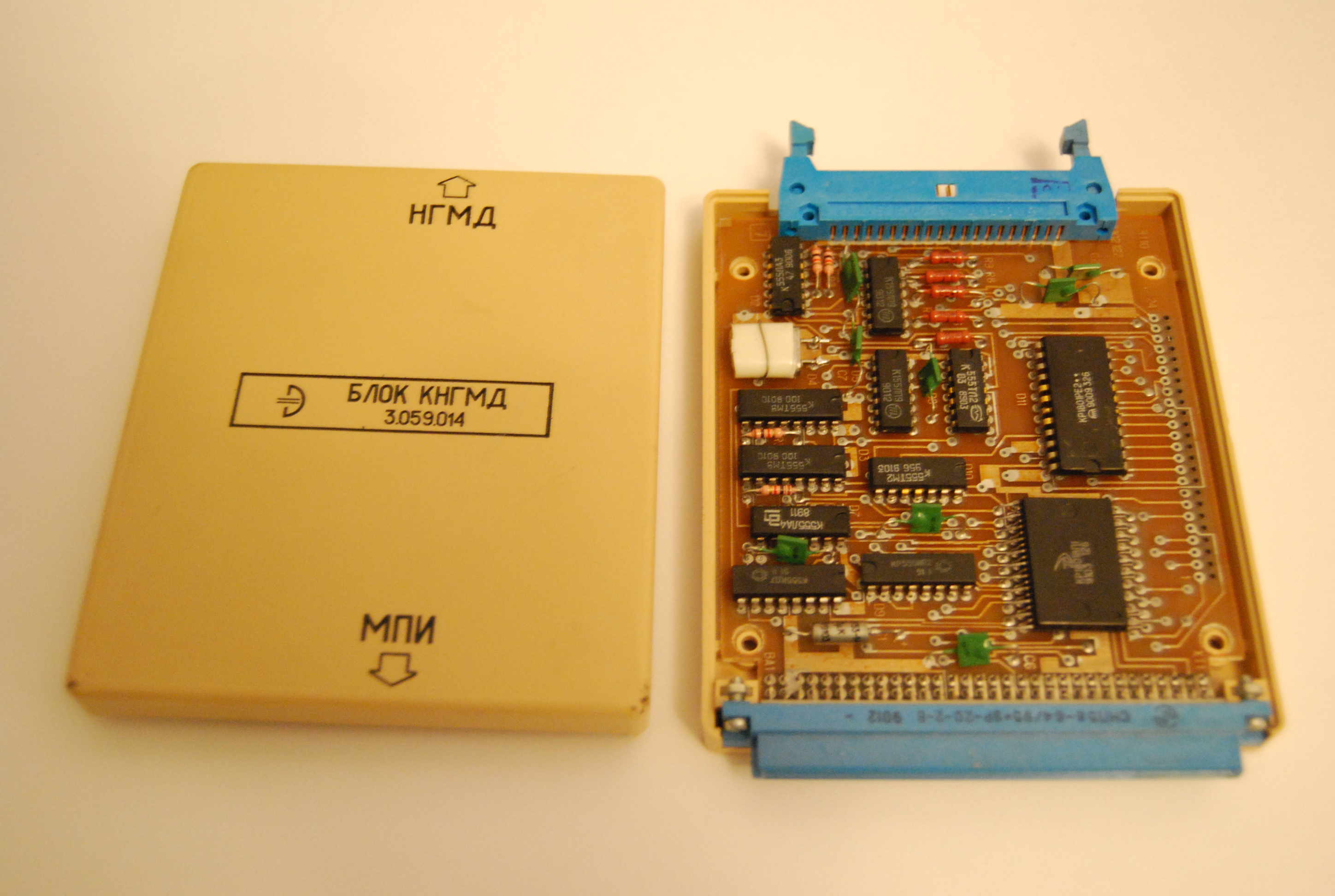 FDD controller module for BK-0011M home computer, disassembled. The ROM version is 326.